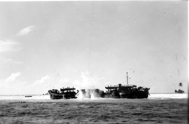 LST-563 on the reef at Clipperton Island, December 1944. Photo taken from USS Argus (PY-14). Official US Navy photo taken from